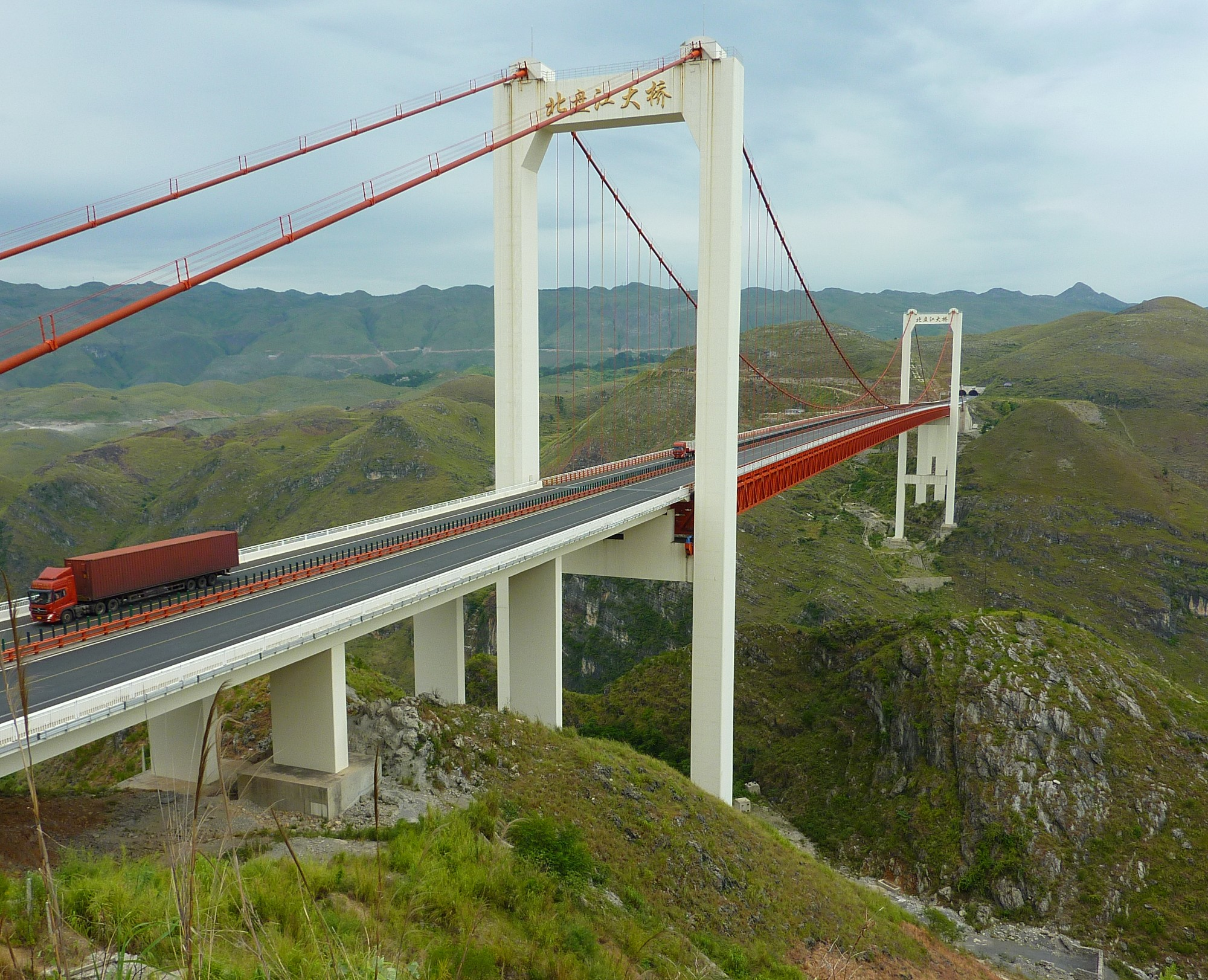 The Beipanjiang Highway Suspension Bridge in Guizhou province, China